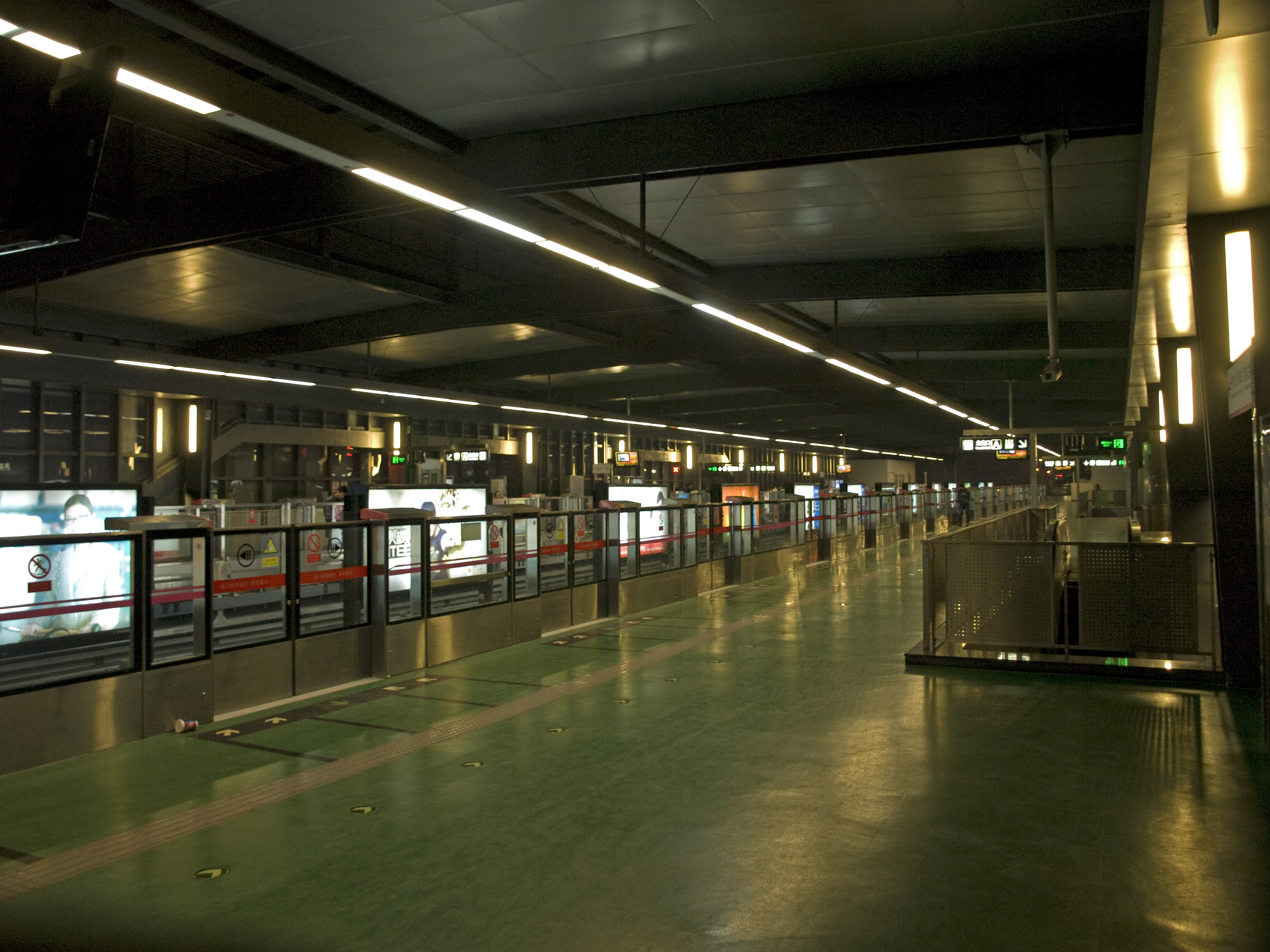 Rongjingdongjie station, Beijing Subway